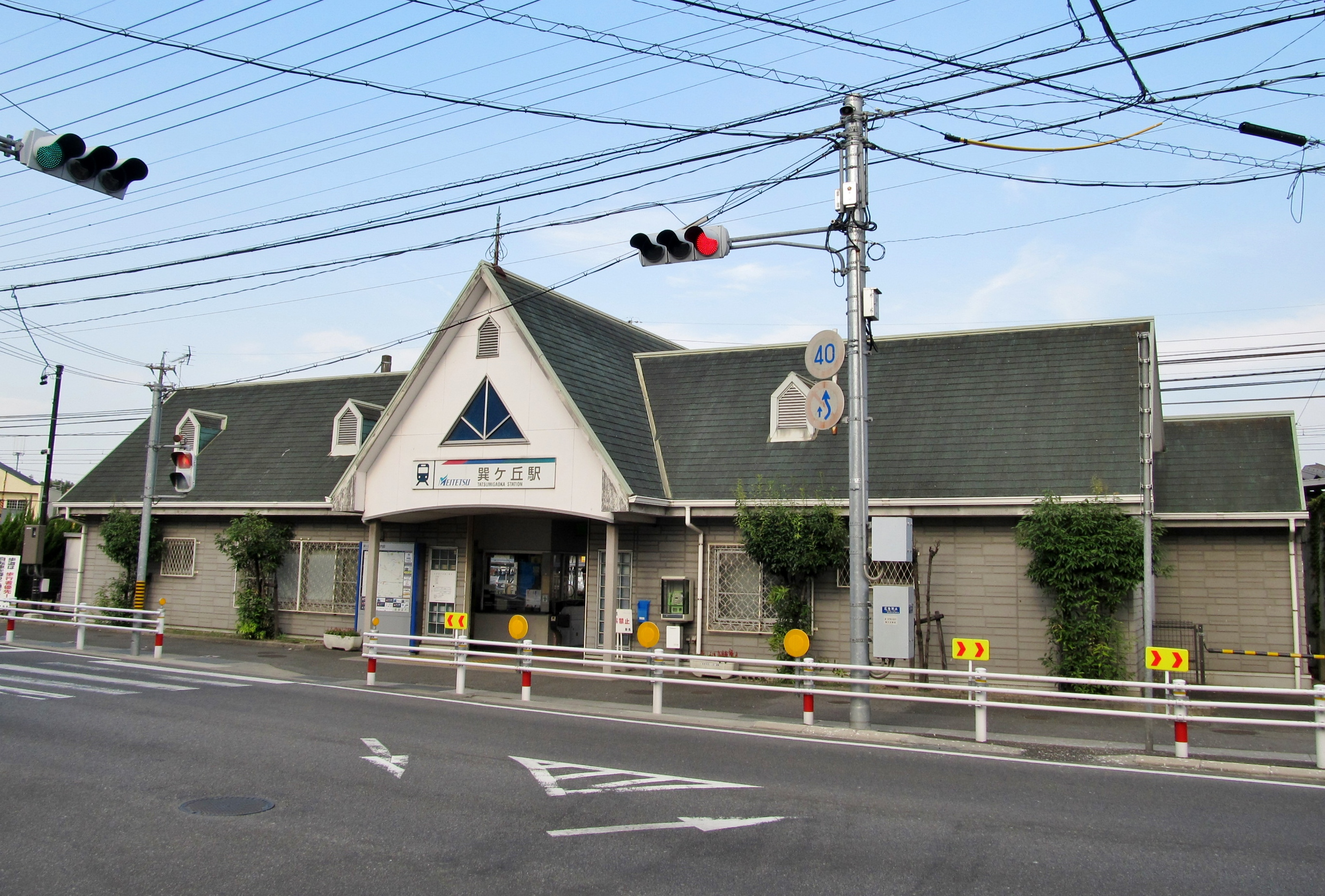 Nagoya Railroad Kowa Line Tatsumigaoka Station Building (West Gate)